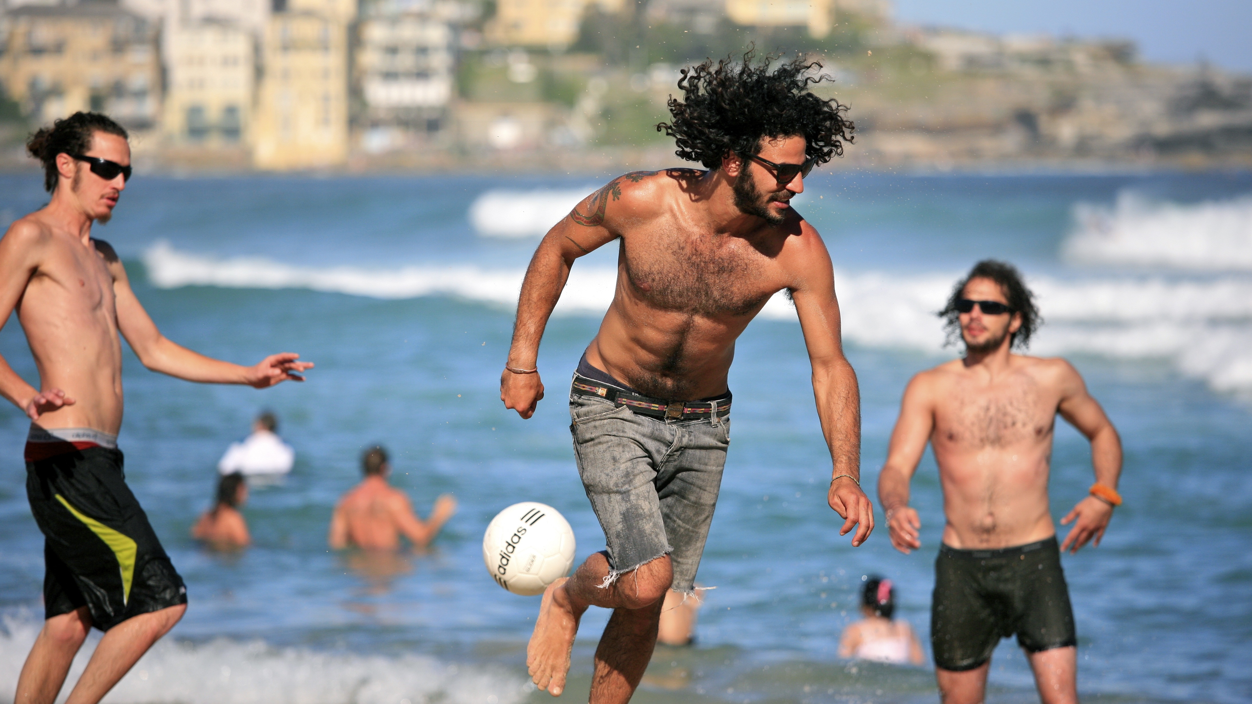 Kicking the Ball